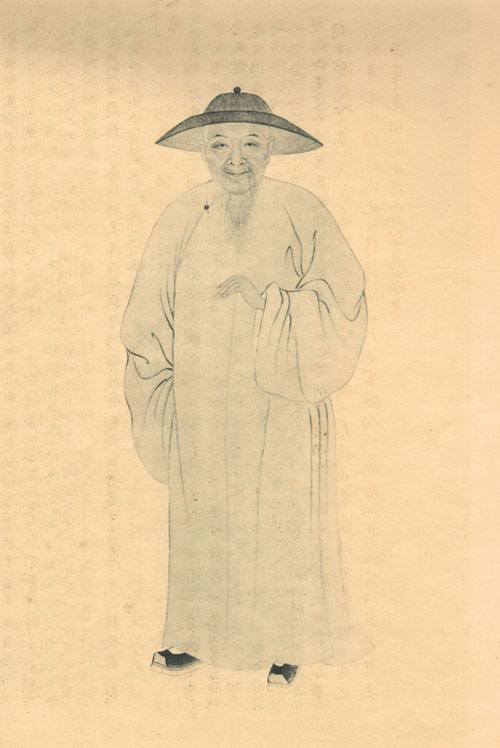 Xu Qiu, politician of the Qing Dynasty.